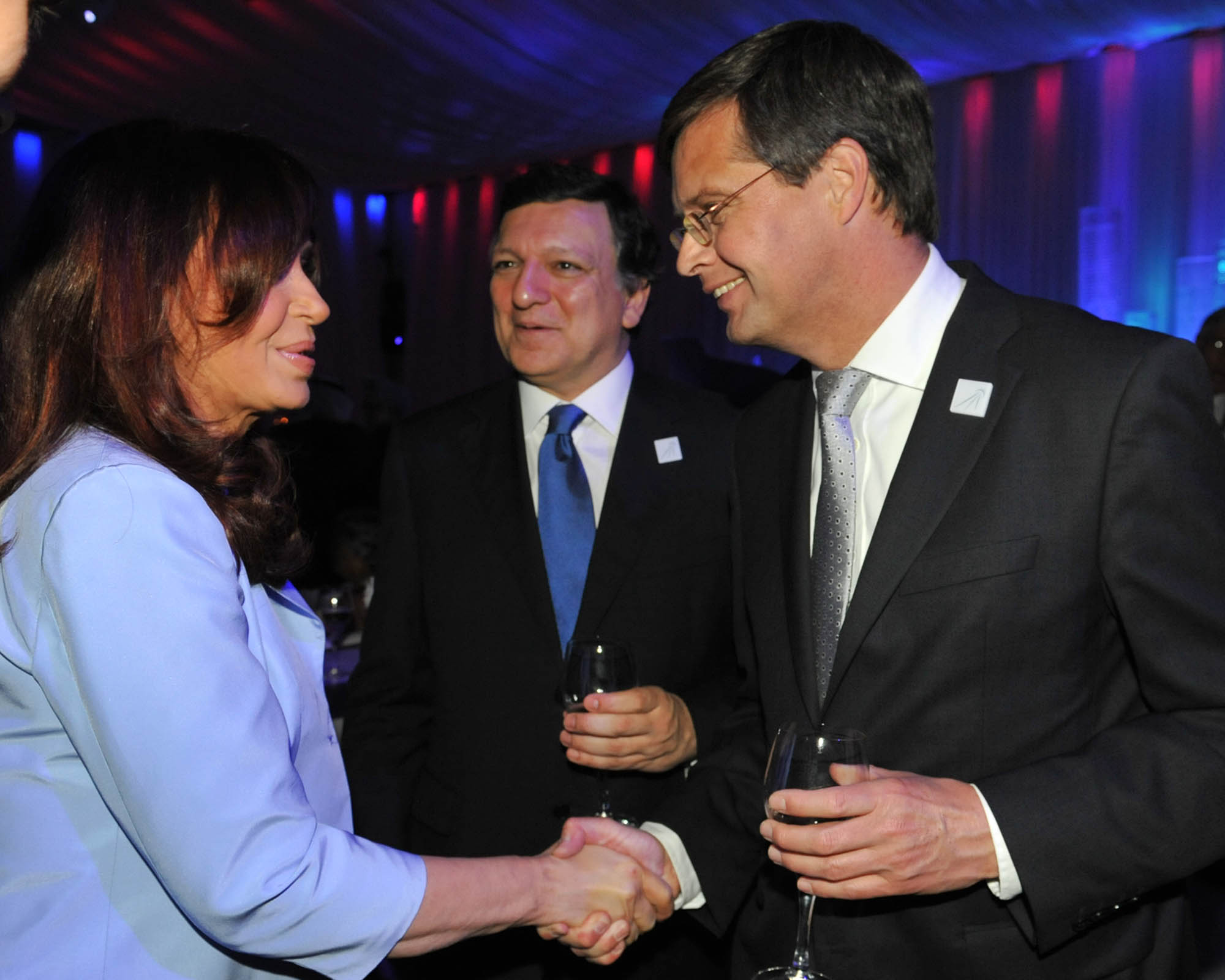 Argentine President Cristina Fernandez de Kirchner and Dutch PM Jan Peter Balkenende in Toronto, Canada